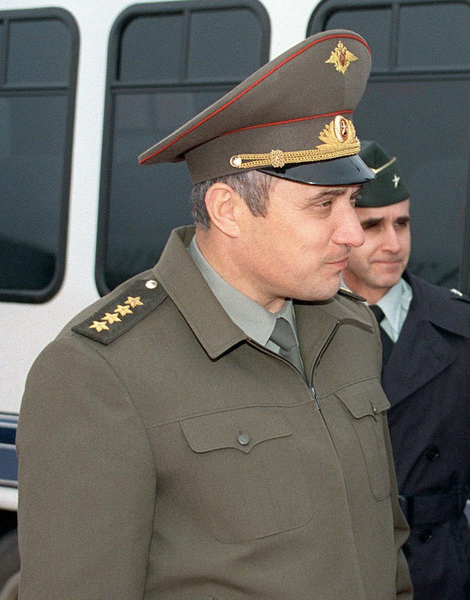 Russian Ground Forces General of the Army Anatoly V. Kvashinin, cropped from US Air Force General Meyers speaks with Russian General Kvashnina at the United States Air Force Academy, Colorado Springs, Colorado.